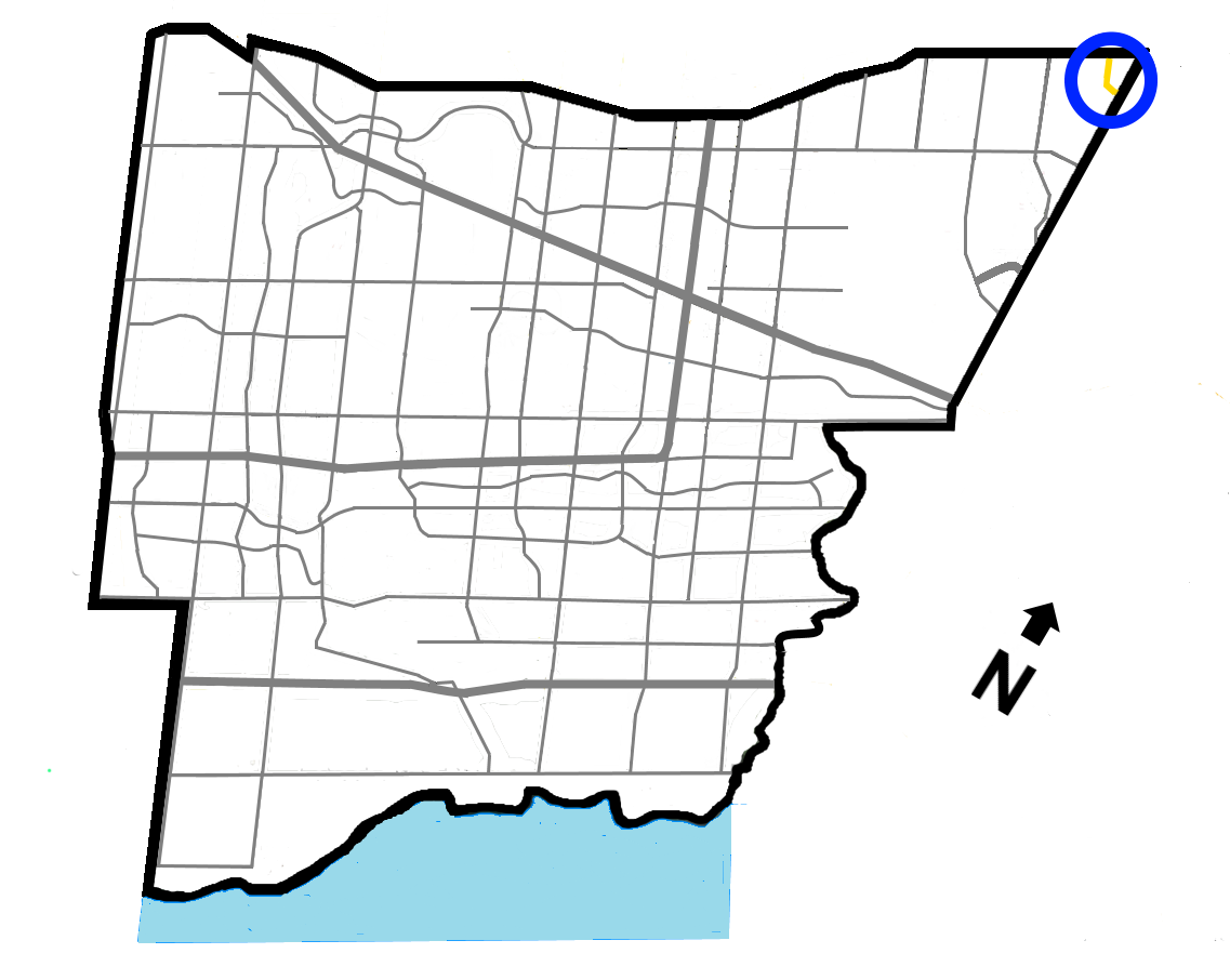 Finch Ave. (circled) in Mississauga